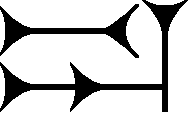 Neo-Assyrian cuneiform sign (U+1207A)